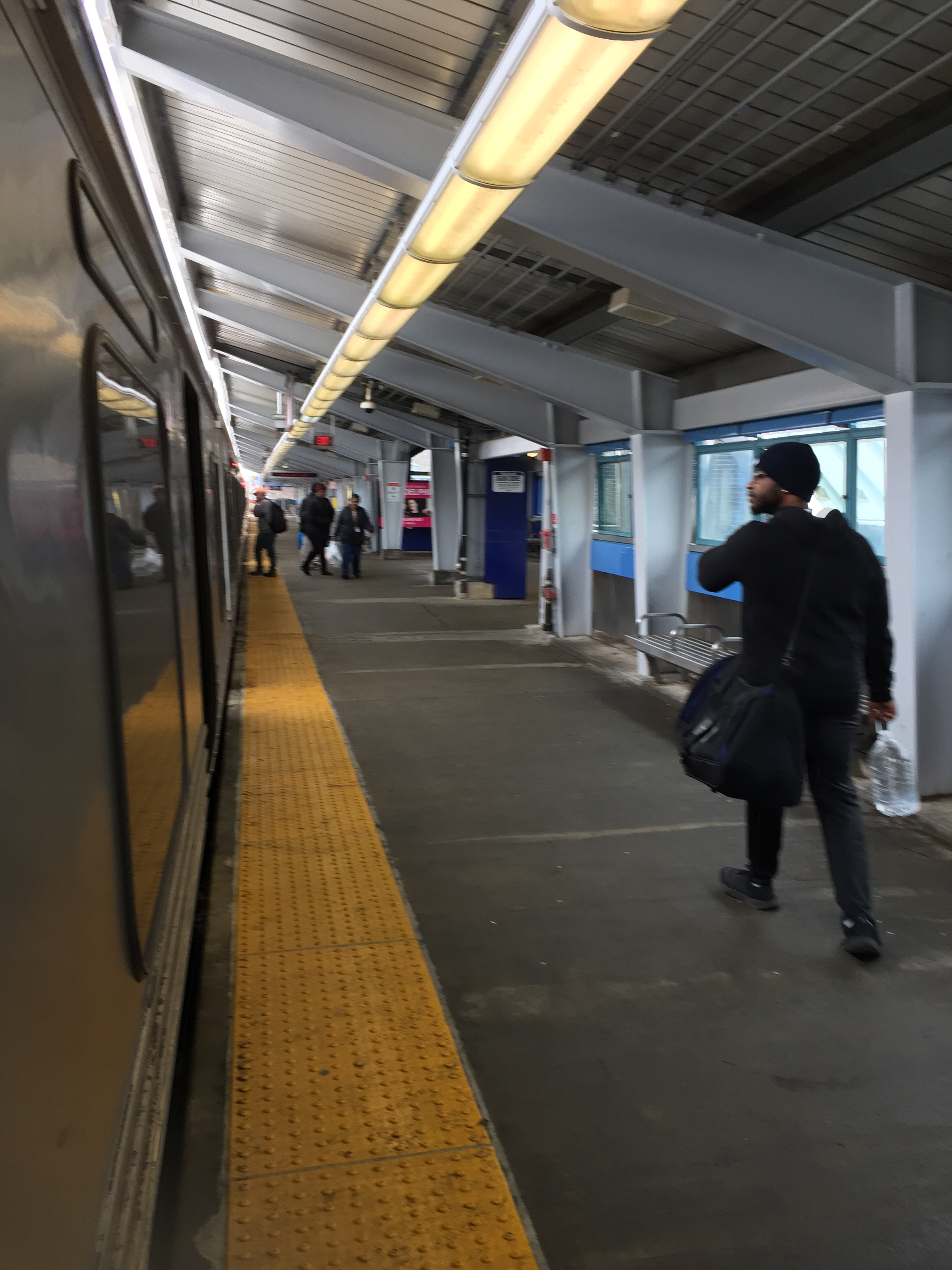 46th Street station on the Market–Frankford Line.